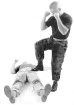 USMC manual photo depicting a stomping technique